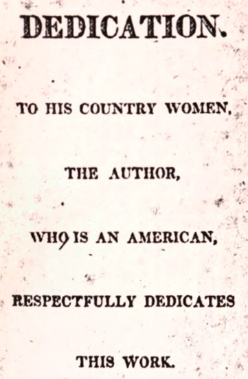 Cropped dedication page of the 1817 novel Keep Cool by eccentric and influential writer, critic, and activist, John Neal (1793-1876). Scanned from the book.